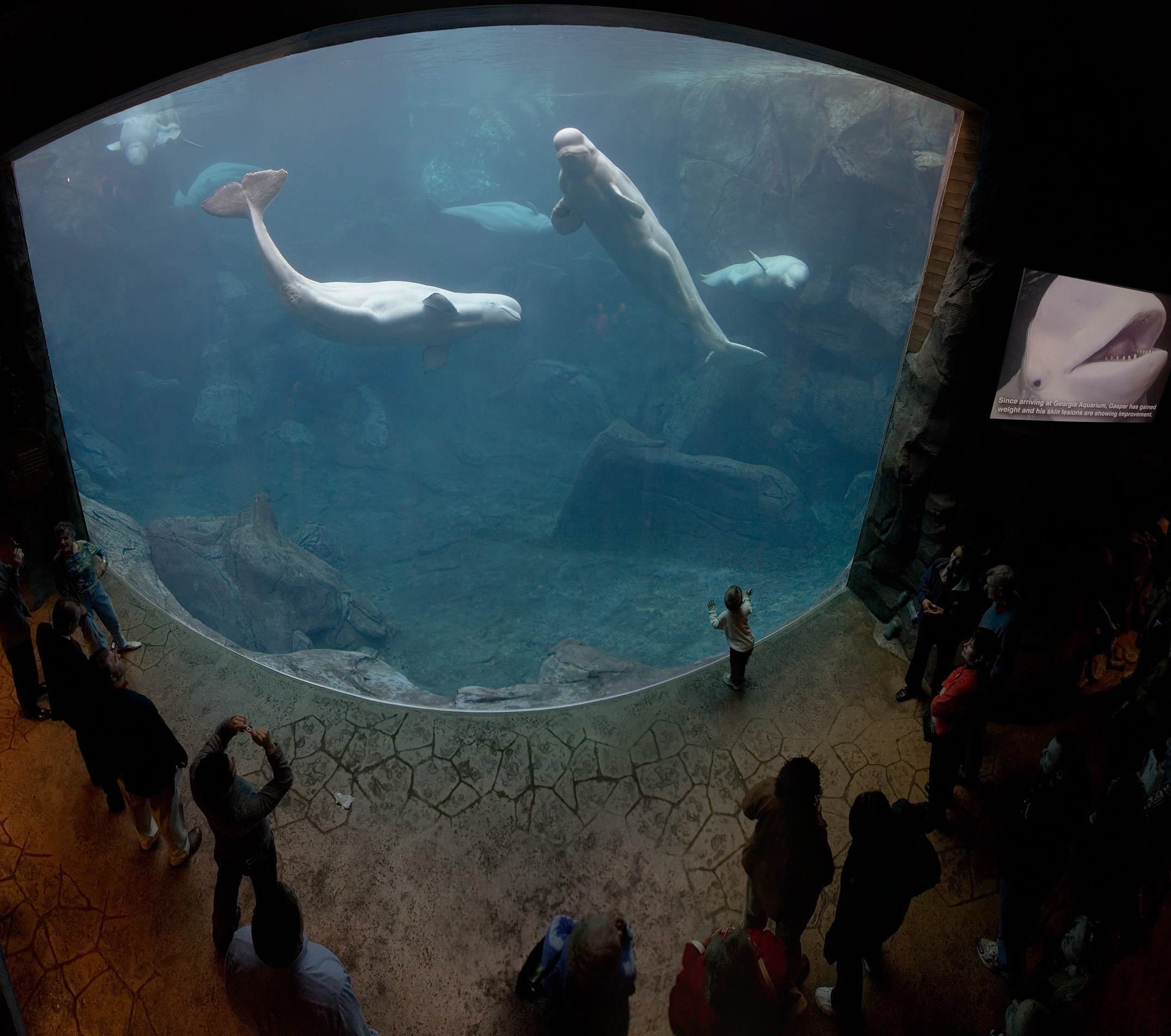 All five of the Beluga Whales (Delphinapterus leucas (Pallas, 1776)) at the Georgia Aquarium in January 2006. This image is a panorama of 3 photos taken with a Canon 5D and 17-40mm f/4L.